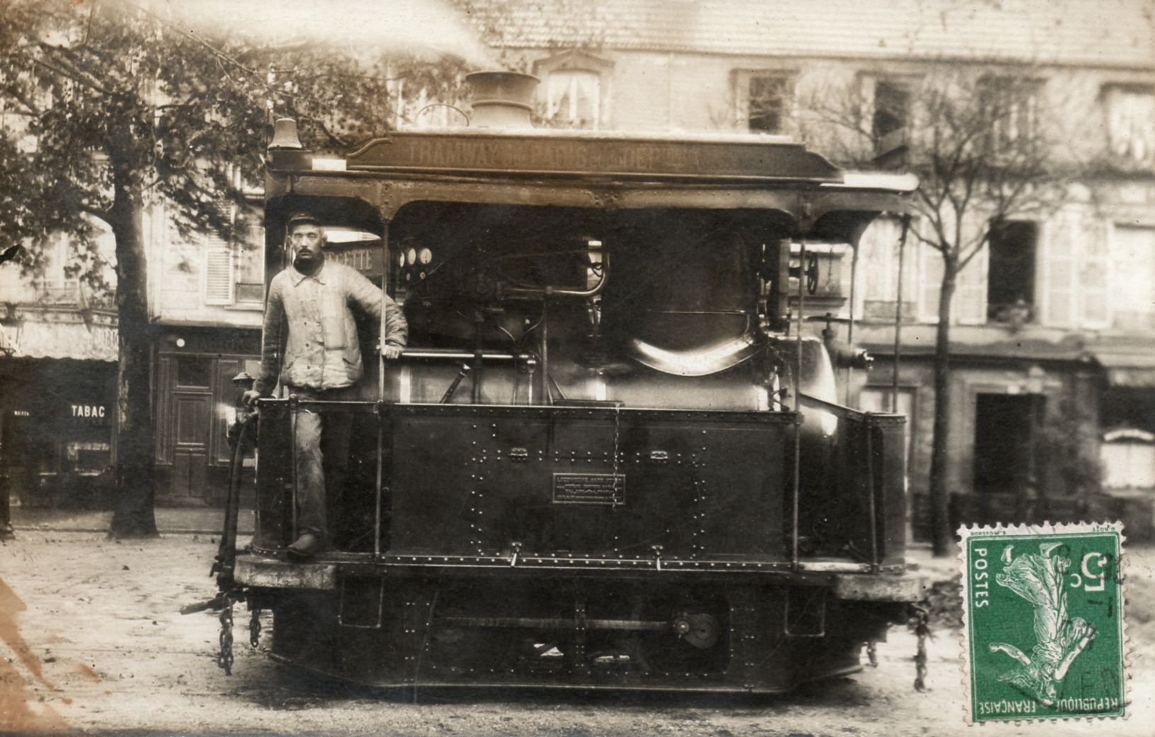 Francq fireless tram, TPDS, in Paris: (France), in 1908 - vintage postcard